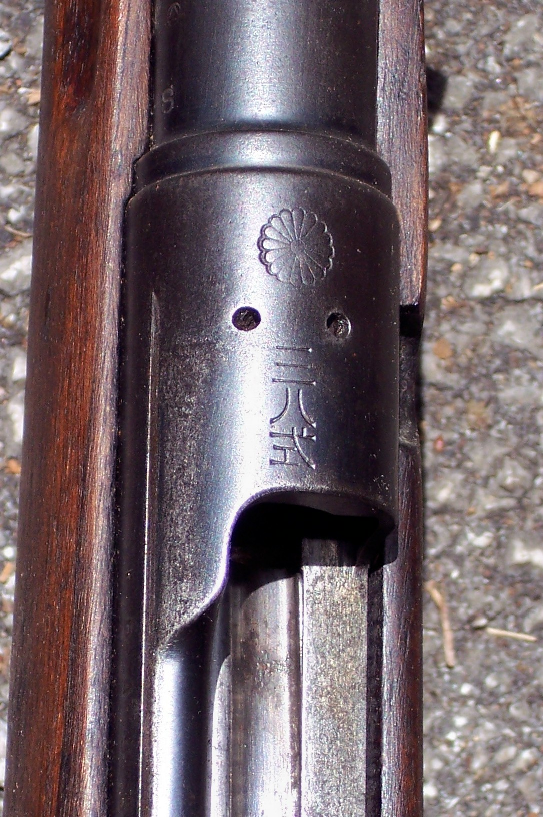 Photo taken by uploading editor, depicting Arisaka rifle that is his own property.